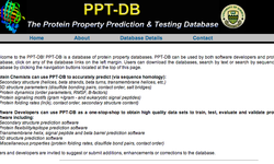 PPT DB website home page